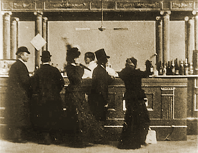 A screenshot of the public domain American film Kansas Saloon Smashers (1901).